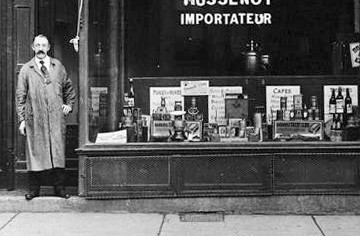 Albert-Louis’ first store in Montreal, taken on December 18th, 1919, the day Albert-Louis became the owner of the store.